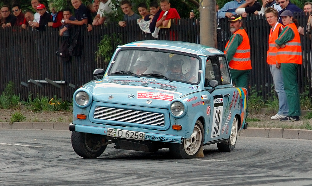 This image shows a Trabant 601. This photo has been taken during the Saxony rally racing 2005 in Zwickau (Germany).